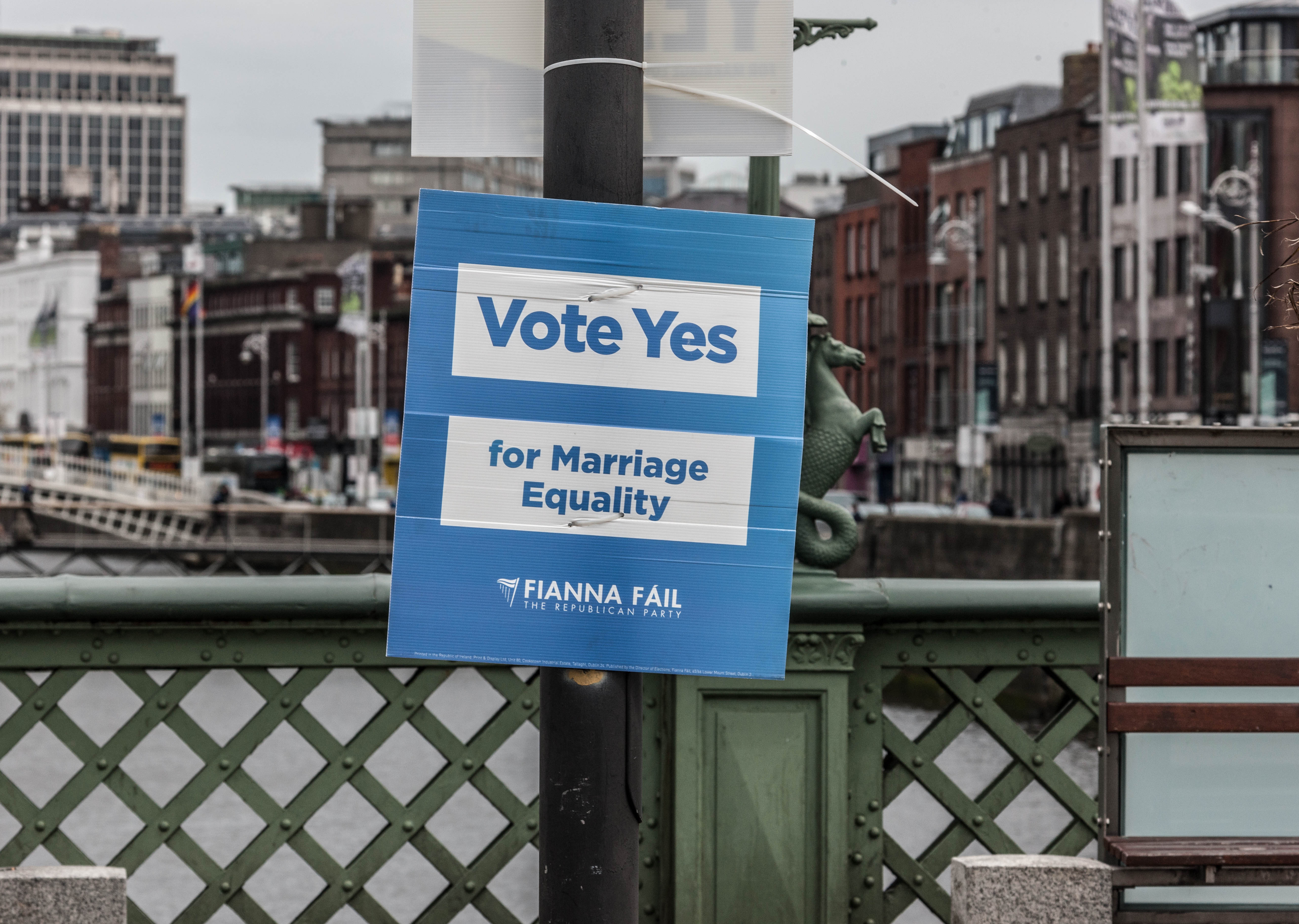 Katherine Zappone and Ann Louise Gilligan lost a case in the High Court in 2006 for the recognition by Ireland of their Canadian same-sex marriage. The Civil Partnership and Certain Rights and Obligations of Cohabitants Act 2010 instituted civil partnership in Irish law. After the 2011 general election, the Fine Gael and Labour parties formed a coalition government, whose programme included the establishment of a Constitutional Convention to examine potential changes on specified issues, including "Provision for the legalisation of same-sex marriage". The Convention considered the issue in May 2013 and voted to recommend that the state should be required, rather than merely permitted, to allow for same-sex marriage. Its report was formally submitted in July and the government formally responded in December, when Taoiseach Enda Kenny said a referendum would be held on 22 May, 2015.